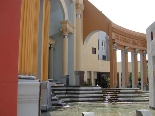 Charles Moore's Piazza d'Italia, New Orleans. Photo by Walt Lockley From